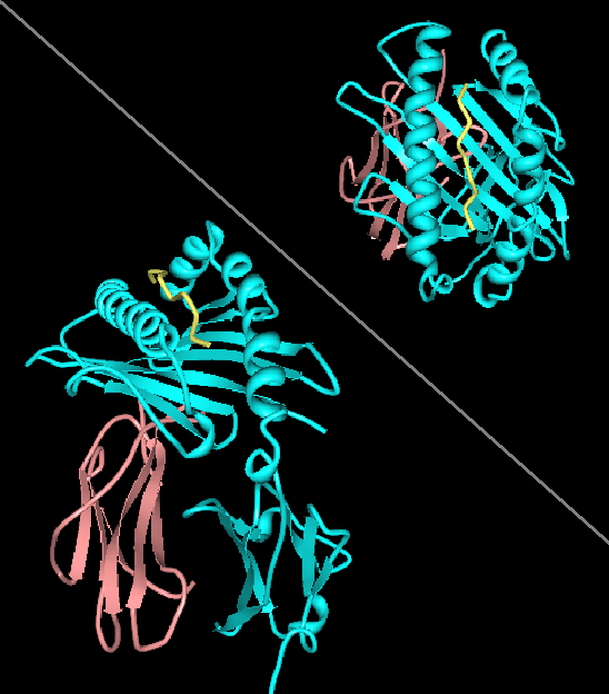 Rendering of HLA-A24, PDB:2BCK. HLA A*2402, β2microglobulin, and peptide (telomerase) in yellow. 3D structure:Crystal Structure of HLA-A*2402 Complexed with a telomerase peptide. Derived from work: Cole, D.K., Rizkallah, P.J., Gao, F., Watson, N.I., Boulter, J.M., Bell, J.I., Sami, M., Gao, G.F., Jakobsen, B.K. (2006) Crystal structure of HLA-A*2402 complexed with a telomerase peptide. Eur.J.Immunol. 36: 170-179